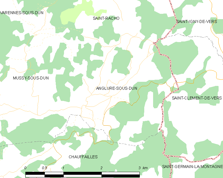 Map of French municipality